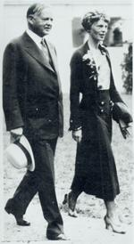 Courtesy of the Hoover archives.